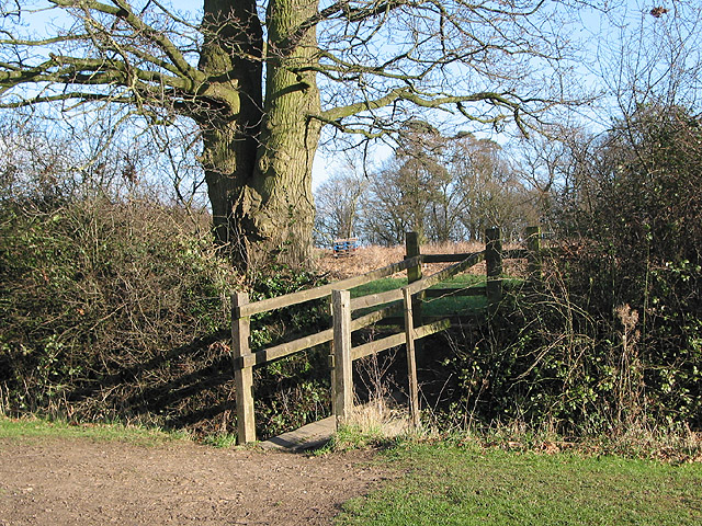 Footbridge into the recreation ground Near Lassington Wood.